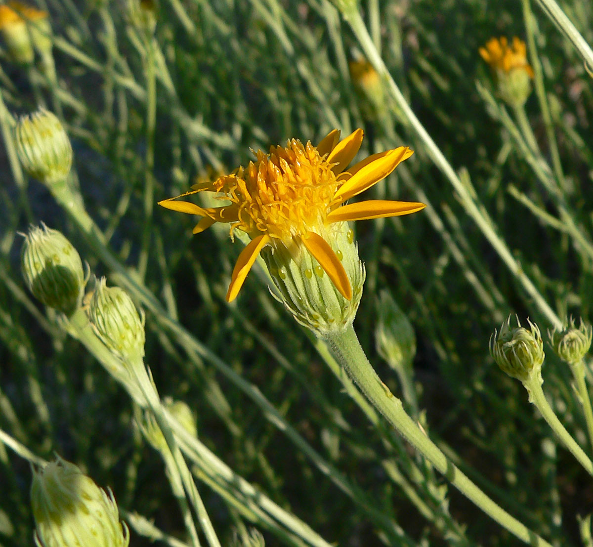 Adenophyllum cooperi just off the Nipton-Searchlight road a couple miles east of Nipton, southern California